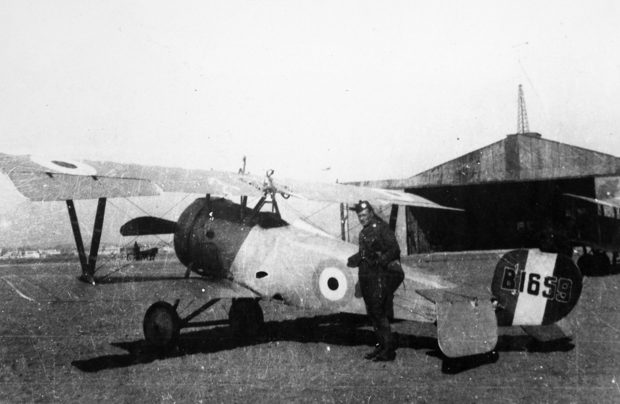 Nieuport 23, possibly with No.1 Squadron, RFC in 1917 Photo from the Lou Larson Collection. These photos were donated to the Museum by Lou Larson via Sue Kenny in September of 2012. Many of the images were from World War One historian Charles Donald.